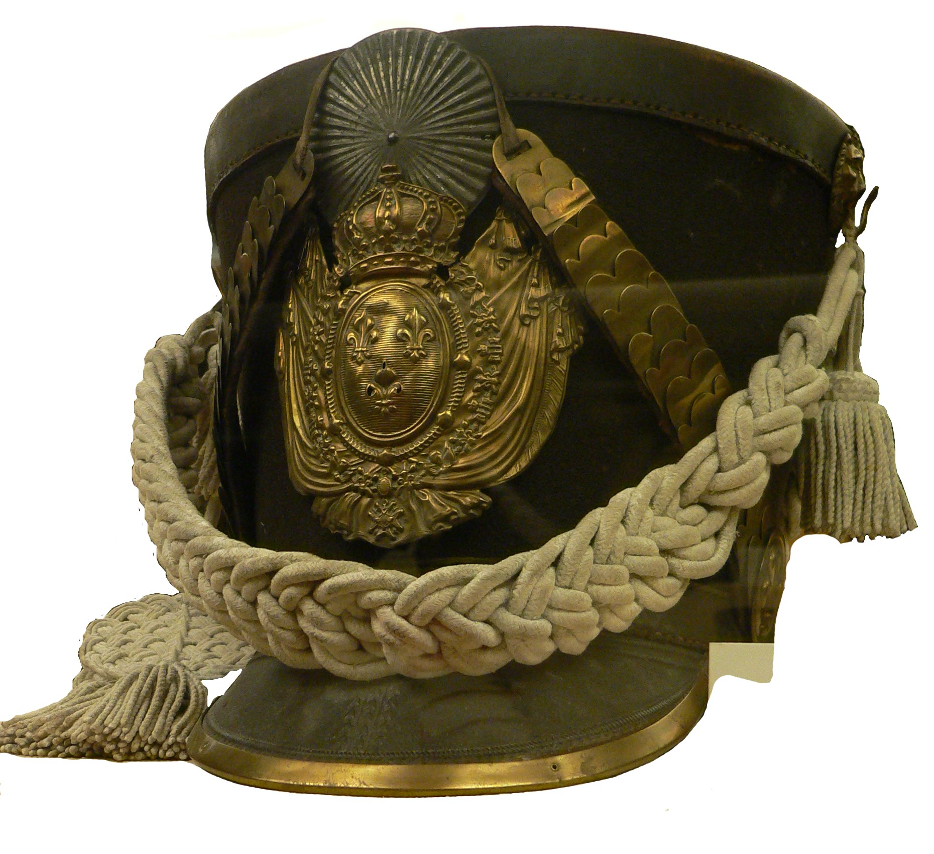 Shako of the French royal guard (Louis XVIII ?), castel of Morges, Switzerland